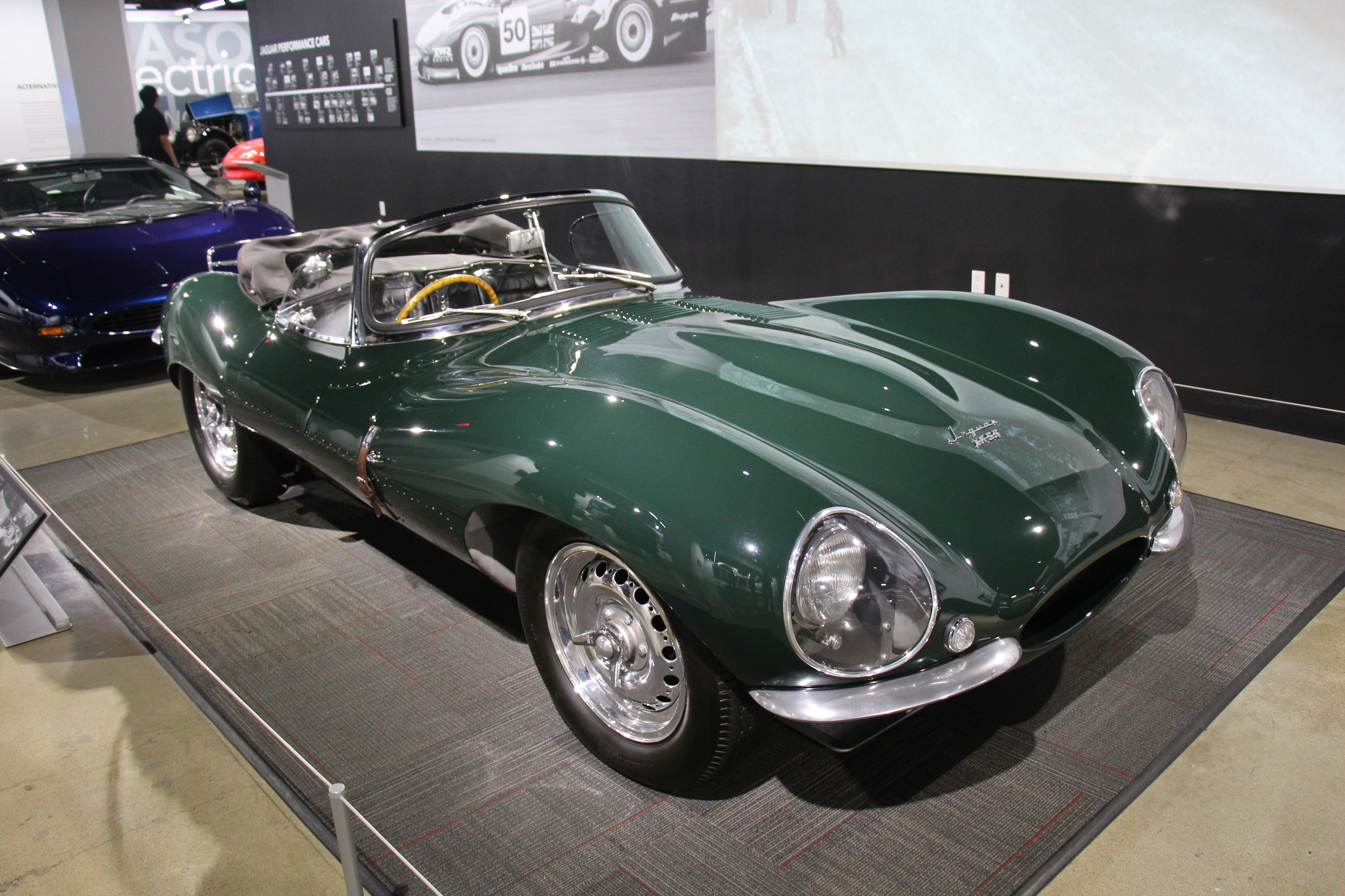 The Jaguar D-Type is a sports racing car that was produced by Jaguar Cars Ltd. between 1954 and 1957. Although it shares several components, including the basic straight-6 XK engine design (initially 3.4 litres and uprated to 3.8 litres in the late fifties), with its predecessor the C-Type, the majority of the car is radically different. D-Types won the Le Mans 24-hour race in 1955, 1956 and 1957 Once they had finished racing them, the remaining chassis were used for the street version, the XK SS. Total D-Type production is thought to have included 18 factory team cars, 53 customer cars, and 16 XK SS versions. Engine; 2400cc 6 cyl and later 3800. This car was once owned by Steve McQueen, who painted the car green, polished the Dunlop wheels and had the interior retrimmed in black. Photographed at the Peterson Museum